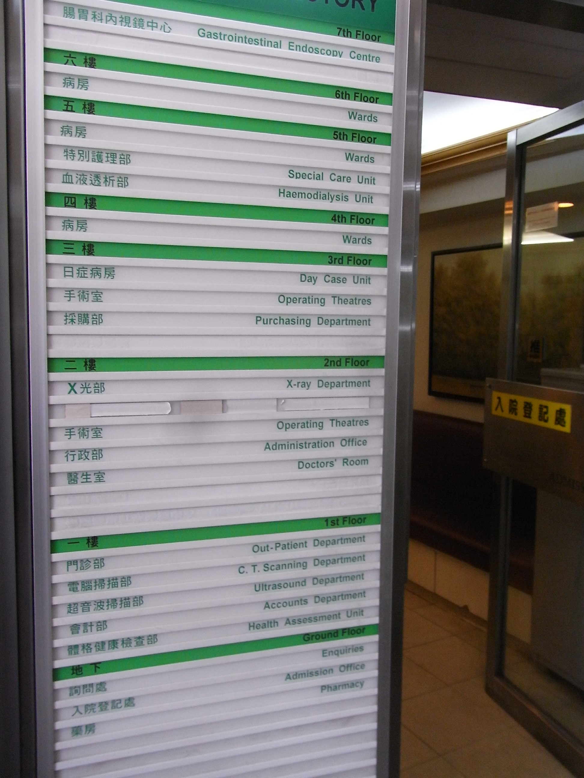 香港島zh:港中醫院, Hong Kong China Hospital, Lower Albert Road, Hong Kong